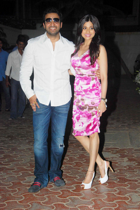 Raj Kundra, Shamita Shetty at Shilpa Shetty's baby shower ceremony